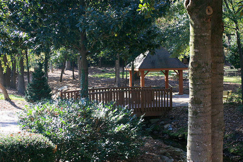 Fuquay Mineral Spring Park in downtown Fuquay-Varina, North Carolina.